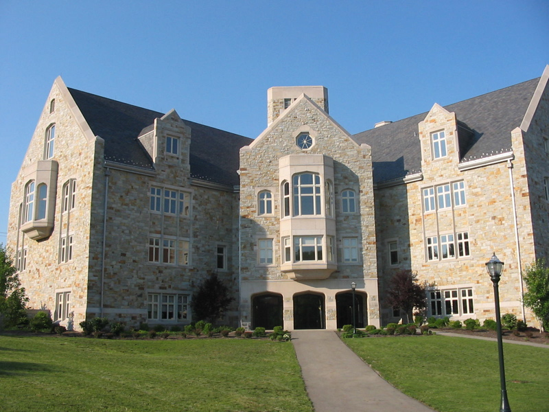 Technology Center, Washington & Jefferson College photo by Matthew K. Gardzina